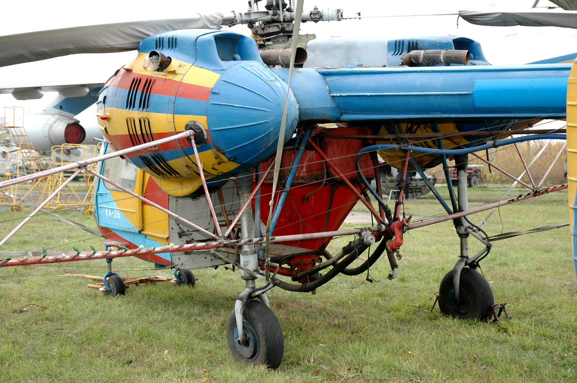 Kamov Ka-26 helicopter